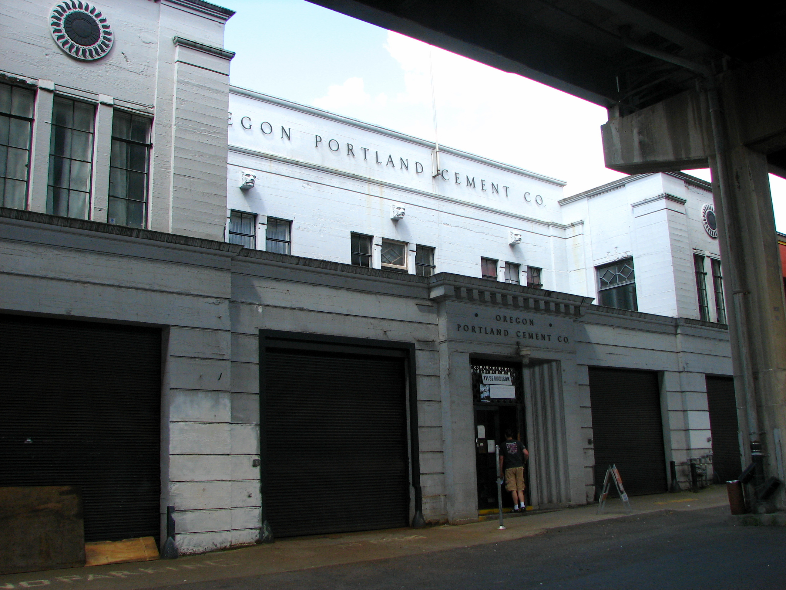 The historic Oregon Portland Cement Building (built 1929), located at 111 Southeast Madison Street in Portland, Oregon, United States, is listed on the US National Register of Historic Places.